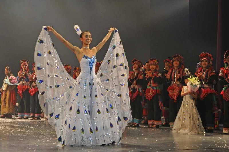 yang liping portrait by tutmos